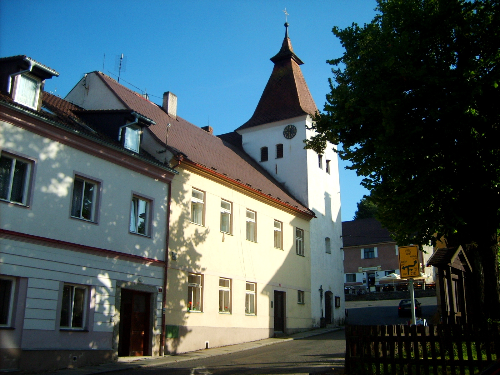 Town square in Hartmanice, Klatovy district, Bohemian Forest mountains.